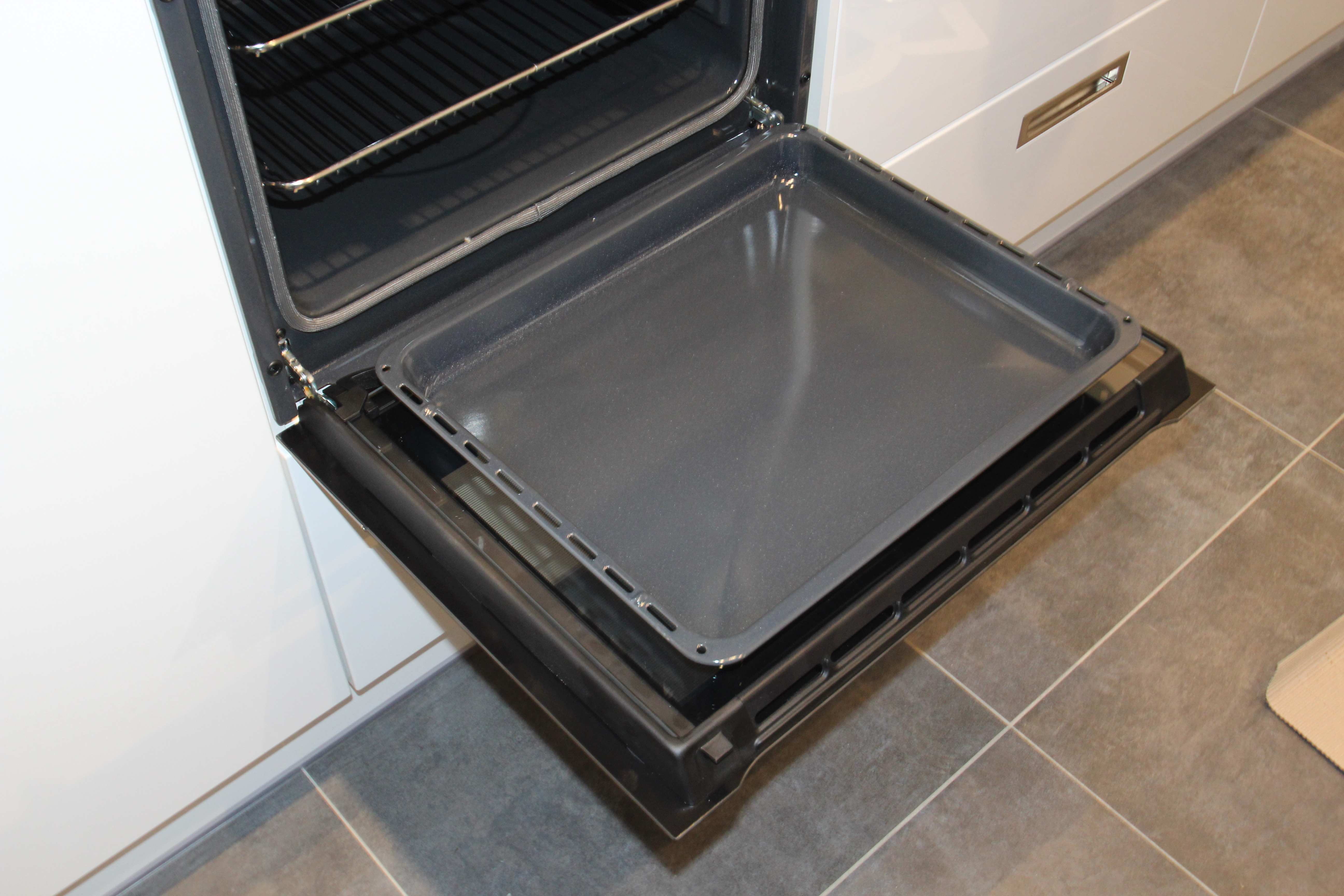 Hardware store Leroy Merlin in Massy, Essonne, France.